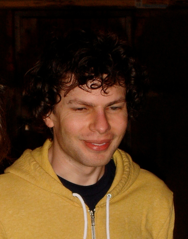 Simon Amstell after his Pavilion Bournemouth gig, 2nd May 2008